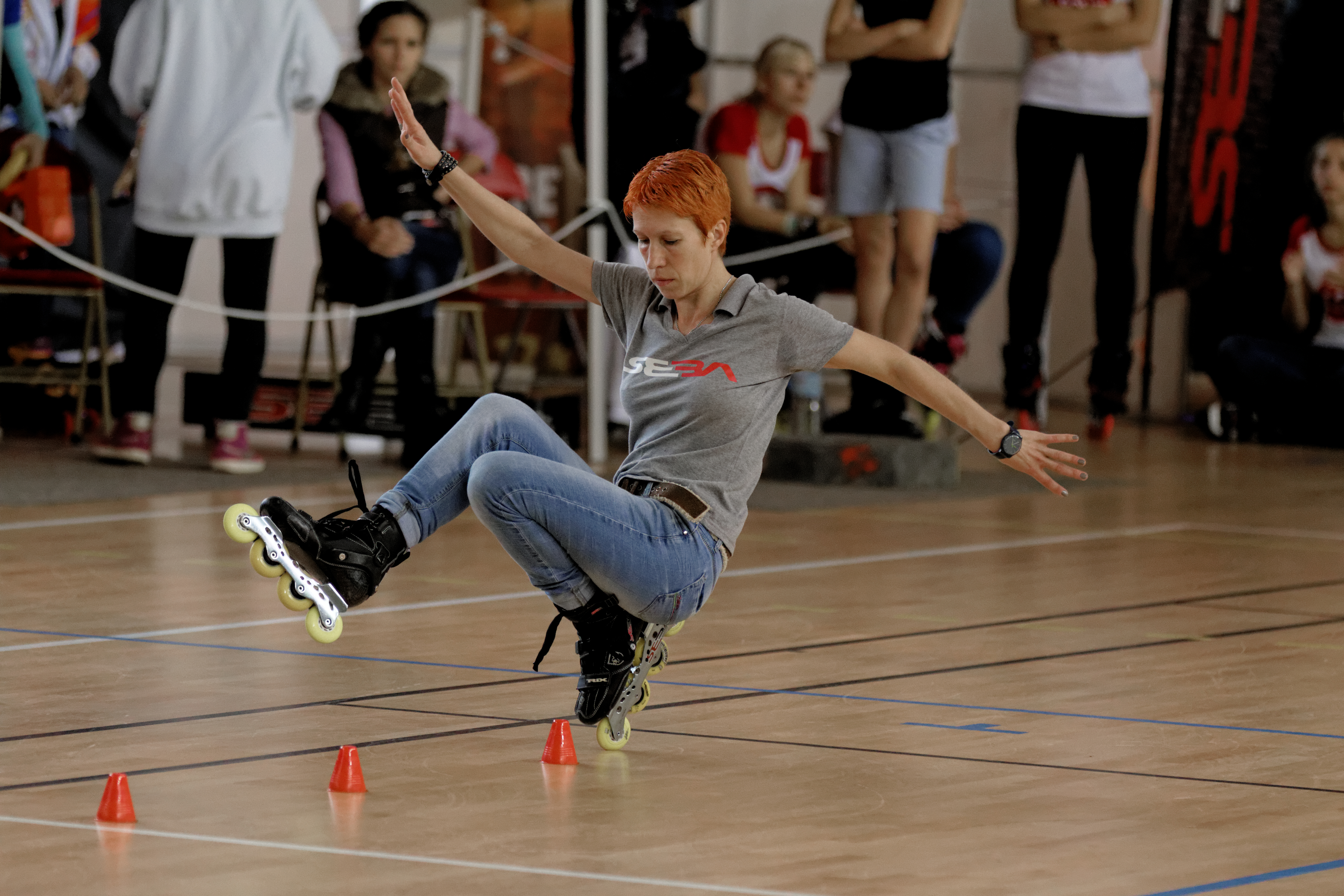 2014 World freestyle skating championships